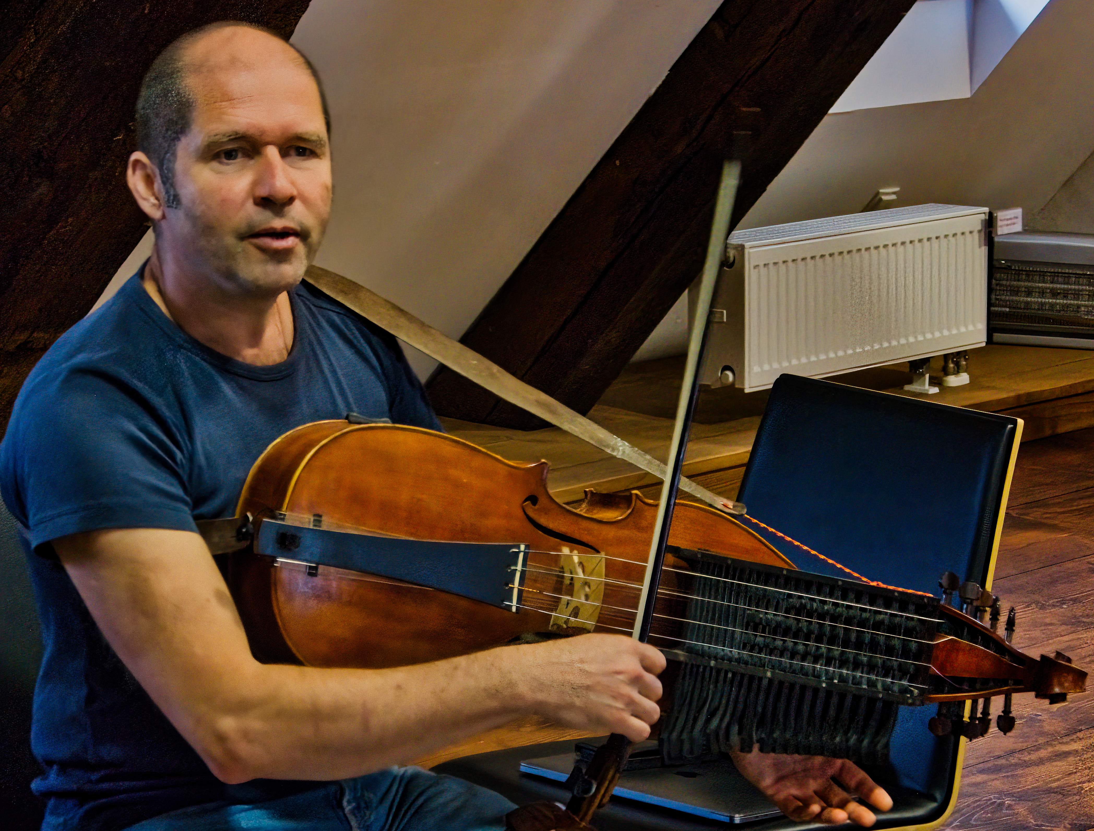 Didier François, violinist and nyckelharpist from (Belgium) invented a new technique of playing the nyckelharpa. Holding the nyckelharpa vertically in front of his chest, he can move both arms more naturally and relaxed. This improves also the sound of the instrument. Using a violin bracket to keep the nyckelharpa away from the body it can swing freely and sounds more open. Didier Francois was stimulated to this technique by the violin style of Arthur Grumiaux. At the moment more and more nyckelharpa player are moving to this "Didier François technique". On this photograph Didier François is teaching during the International Days of the Nyckelharpa at castle BURG FÜRSTENECK in Germany 2005. His Nyckelharpa is built by Joos Janssens, Belgium.